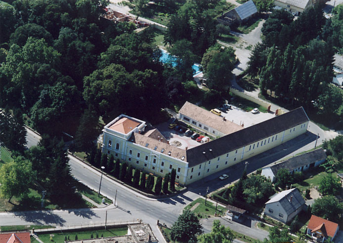 Palace - Bikal - Hungary - Europe (Puchner Mansion)